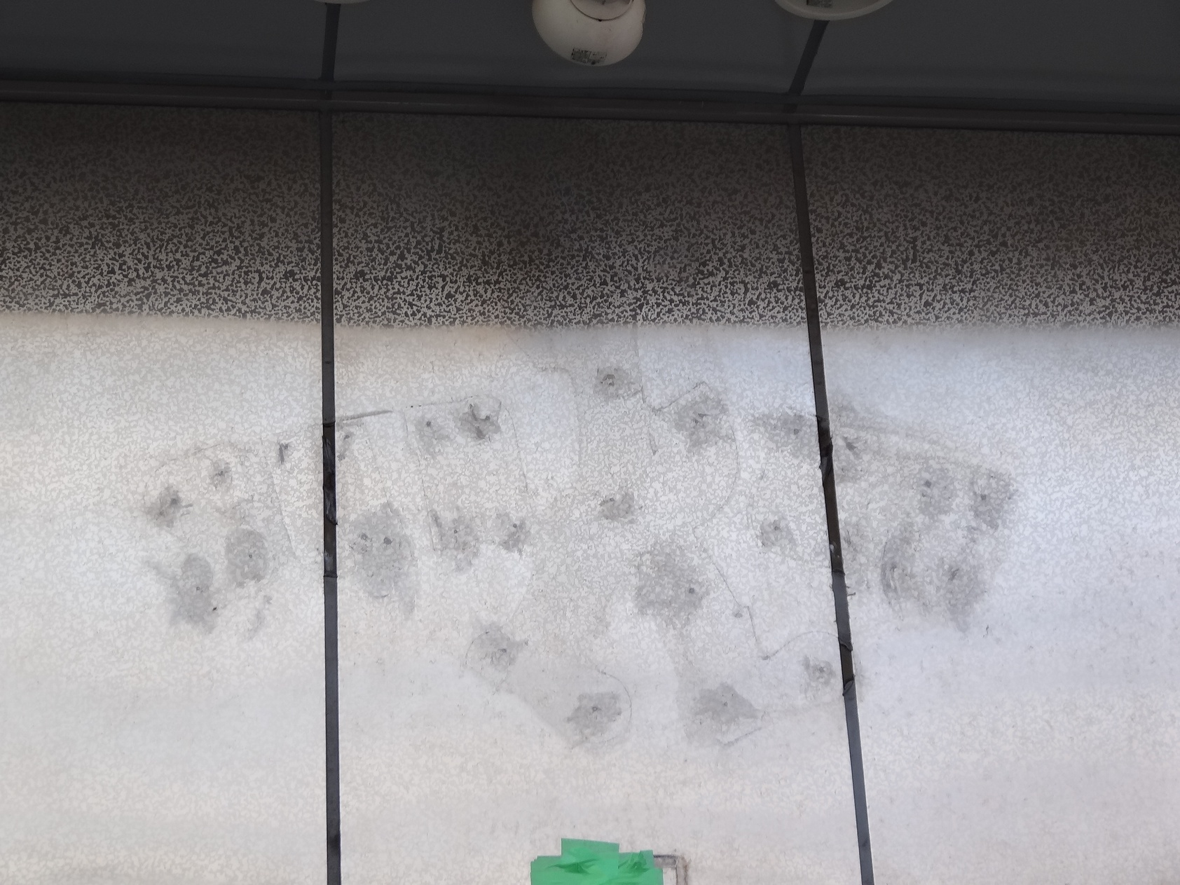 The Ruin of Sunkus Higashi-sengoku Store, also known as "Silver Sunkus" (Kagoshima City, Japan)